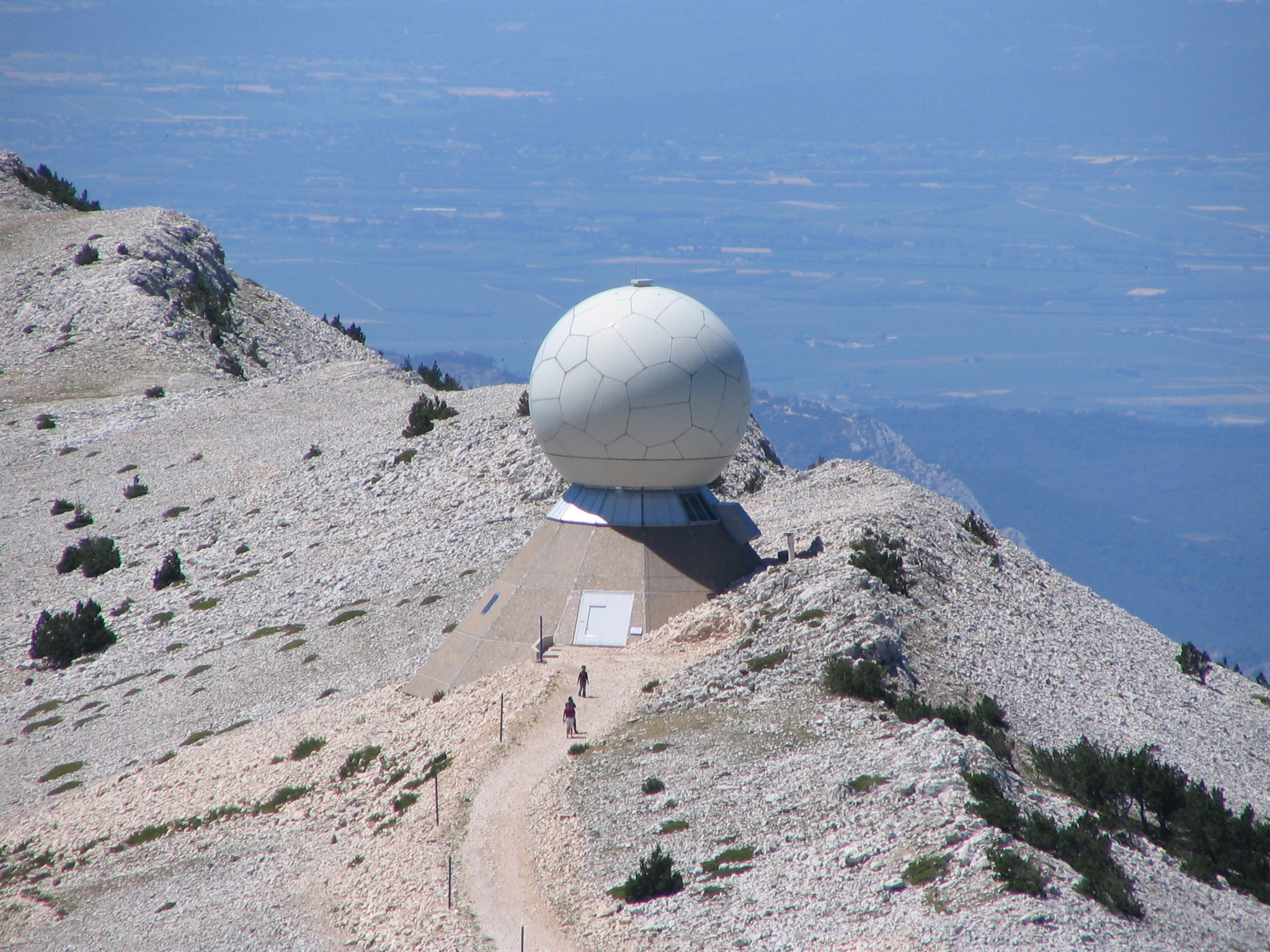 The observatory at Mont Ventoux, France